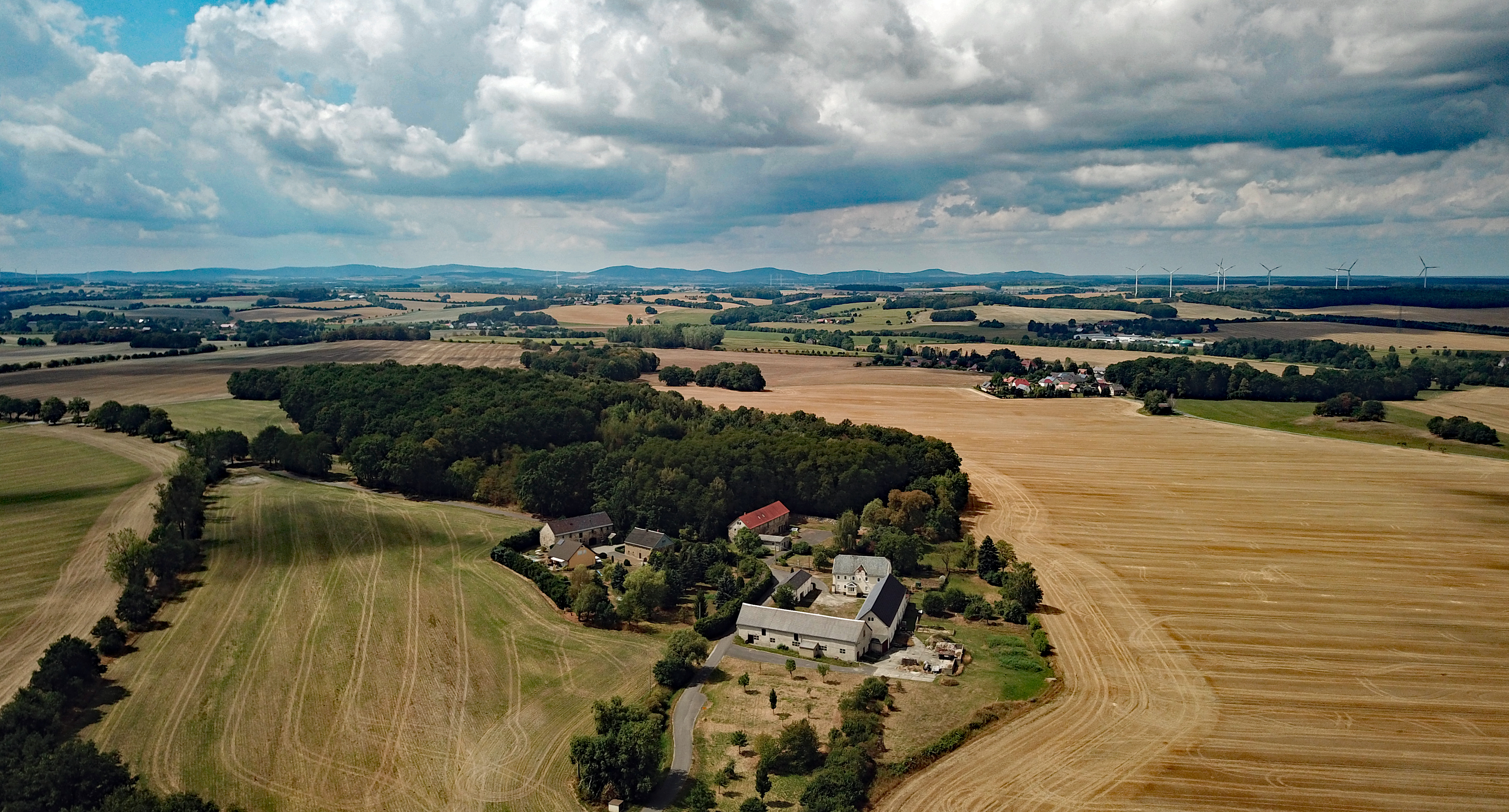 Strohschütz (Radibor, Saxony, Germany) Hornjoserbsce: Powětrowy wobraz Stróžišća